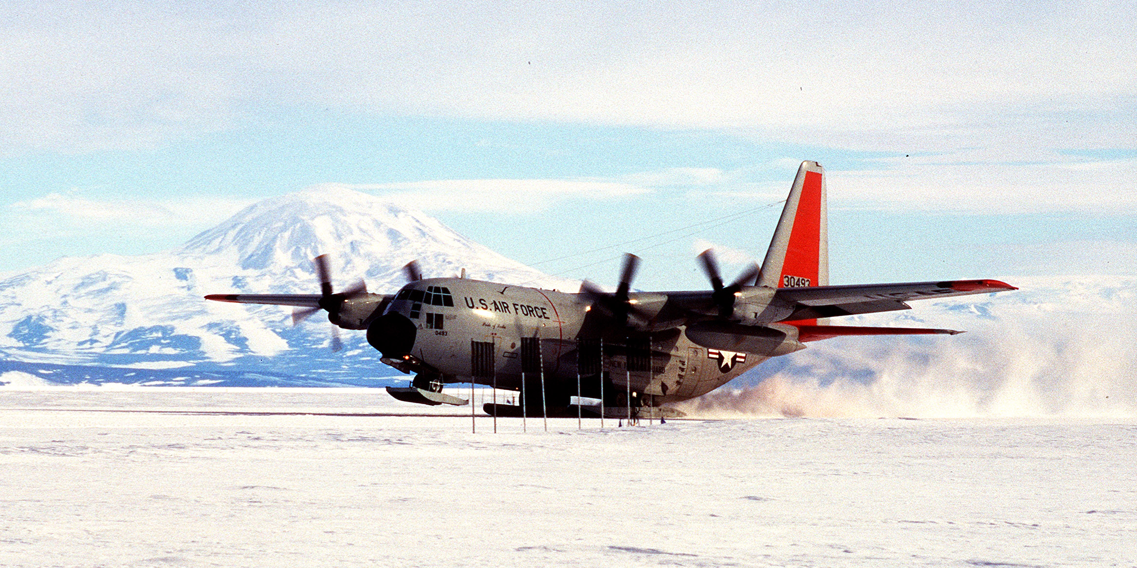 A U.S. Air Force LC-130 Hercules from the New York Air National Guard's 109th Airlift Wing touches down near McMurdo Station, Antarctica.